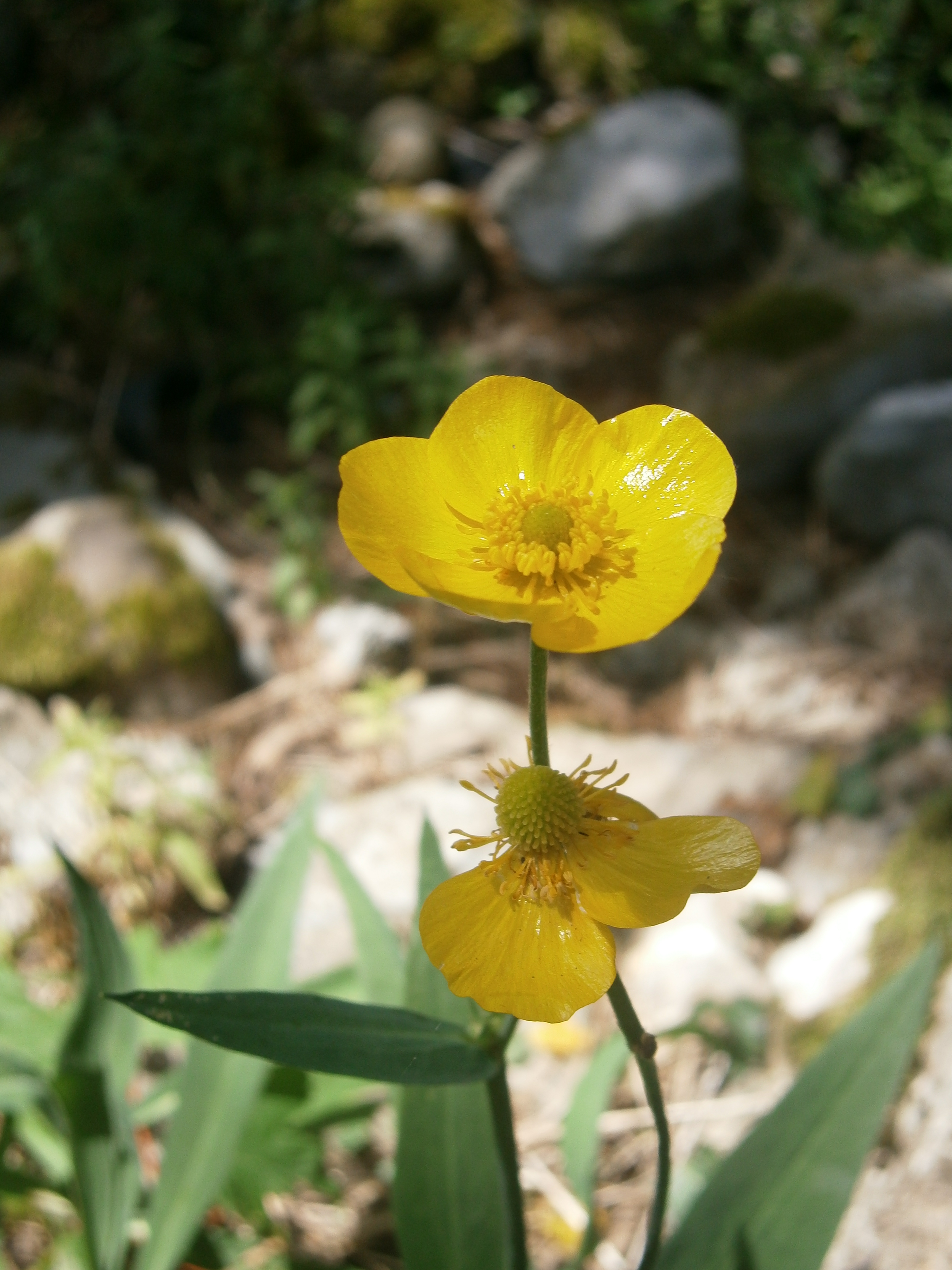 Ranunculus lingua close-up